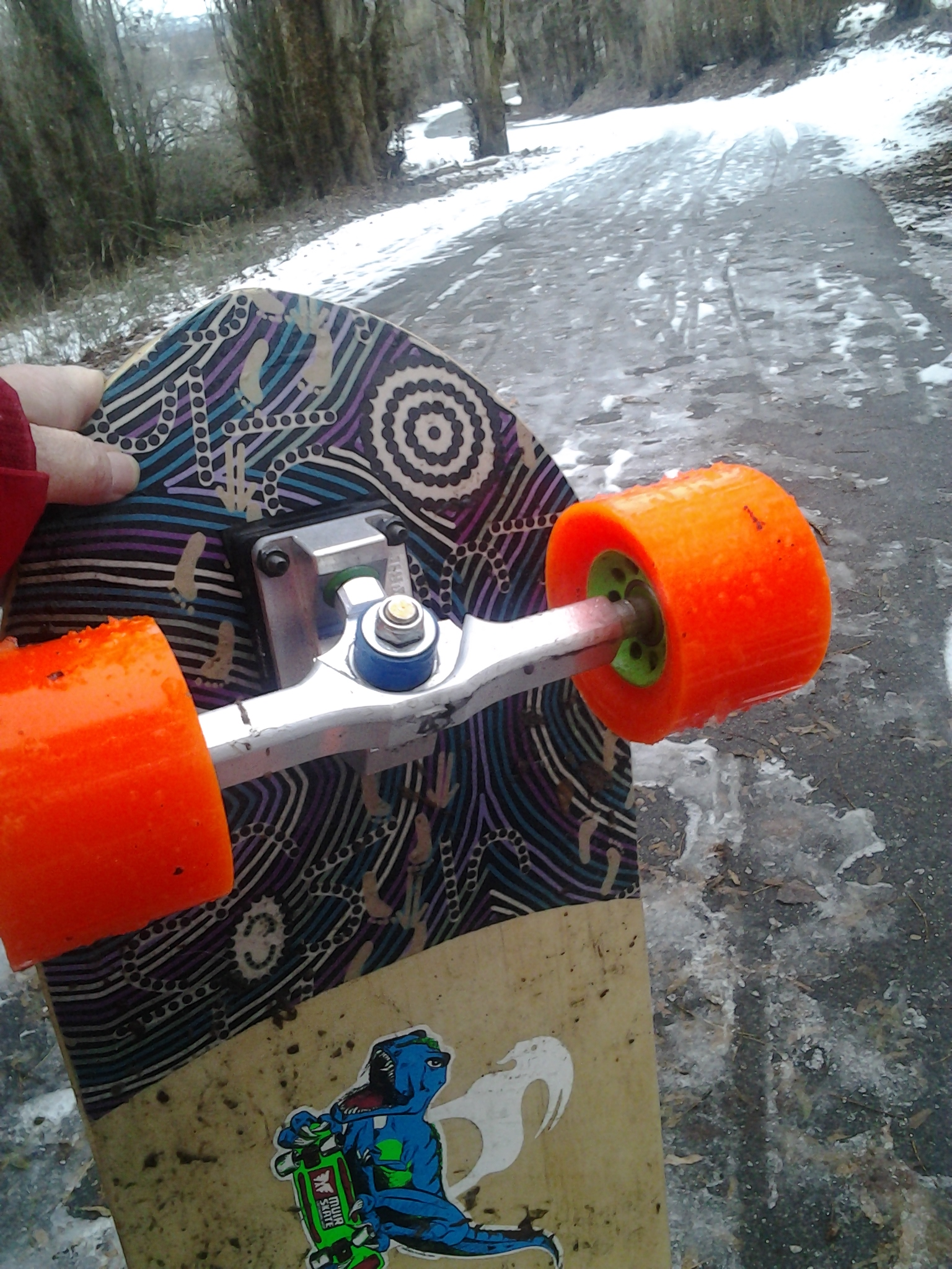 Longboarding in the snow with Don't Trip Poppies precision truck on a Long Board Larry Walkabout with Orangatang Kegel wheels in East Wenatchee Washington